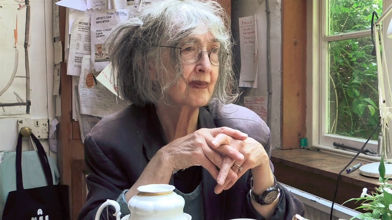 Studio International visited the painter Rose Wylie in her studio in Kent, to see the new paintings she’s working on. Wylie, who is 80 this year, and has painted all her life, has also taught in further education, and, with her husband, the painter Roy Oxlade, in adult education. In the past 10 years, she has won awards and prizes, and her works have received increasingly greater attention within the fine art world and been included in exhibitions across the globe. Wylie explained: “It used to be that the house was full of paintings stacked against the walls – now they go out and away.” Surrounded by her wall-sized canvases and small graphite drawings (stored in paint-splattered plastic leaves), Wylie talked about her drawing, painting and thinking process, and the things that inspire and influence her work. Interview by MK PALOMAR Filmed by MARTIN KENNEDY